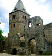 I was stationed at the William O'Darby Kaserne: A US army barracks in use during 1973. The gate would have been just beyond the castle ruins.